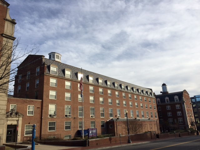 The Harriet Tubman Quadrangle-- “The Quad”-- is comprised of five halls housing approximately 640 freshman females only. The resident halls are comprised of Wheatley, Baldwin, Frazier, Truth and Crandall Halls.